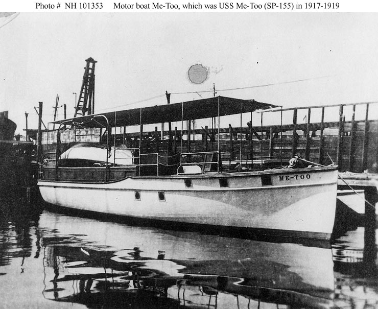 Civilian motorboat Me-Too prior to her United States Navy service as patrol boat USS Me-Too (SP-155)